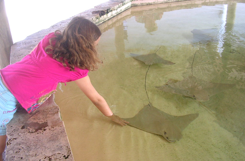 Cownose ray touchpool at Mote Aquarium in Sarasota, Florida.